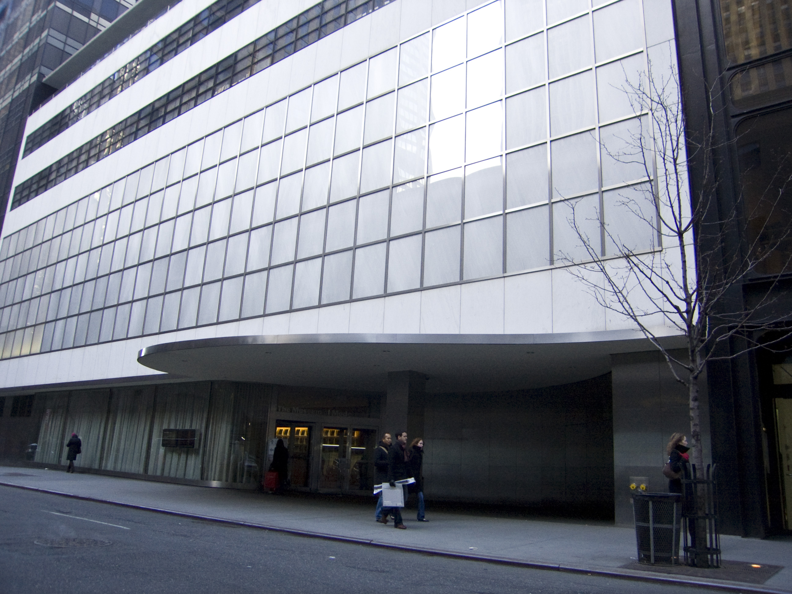 Facade of the Museum of Modern Art—MOMA, located on 53rd Street in Midtown Manhattan, New York City, New York. Wikipedia Loves Art at the Film Society of Lincoln Center This photo of Museum of Modern Art Department of Film and Video supported by the Film Society of Lincoln Center was contributed under the team name "The_Grotto" as part of the Wikipedia Loves Art project in February 2009. The original photograph on Flickr was taken by cjn212—please add a comment to the original Flickr page whenever a use has been made on Wikipedia or another project. Project galleries on Flickr: this institution, this team